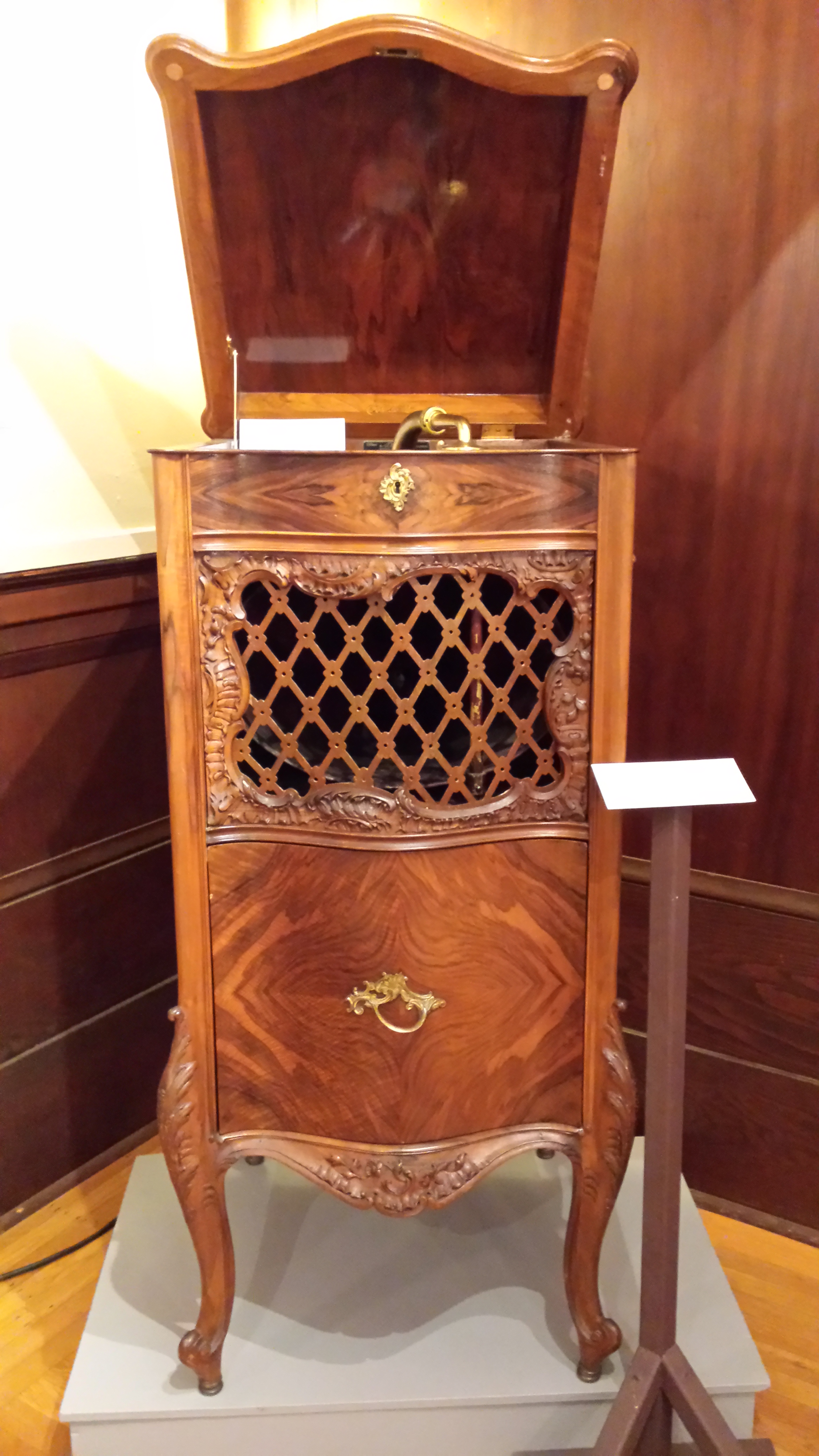 Edison Louis XV brand Phonograph at the Museum of American Heritage. According to the placard, only 60 were made and they cost $425 USD in 1912.